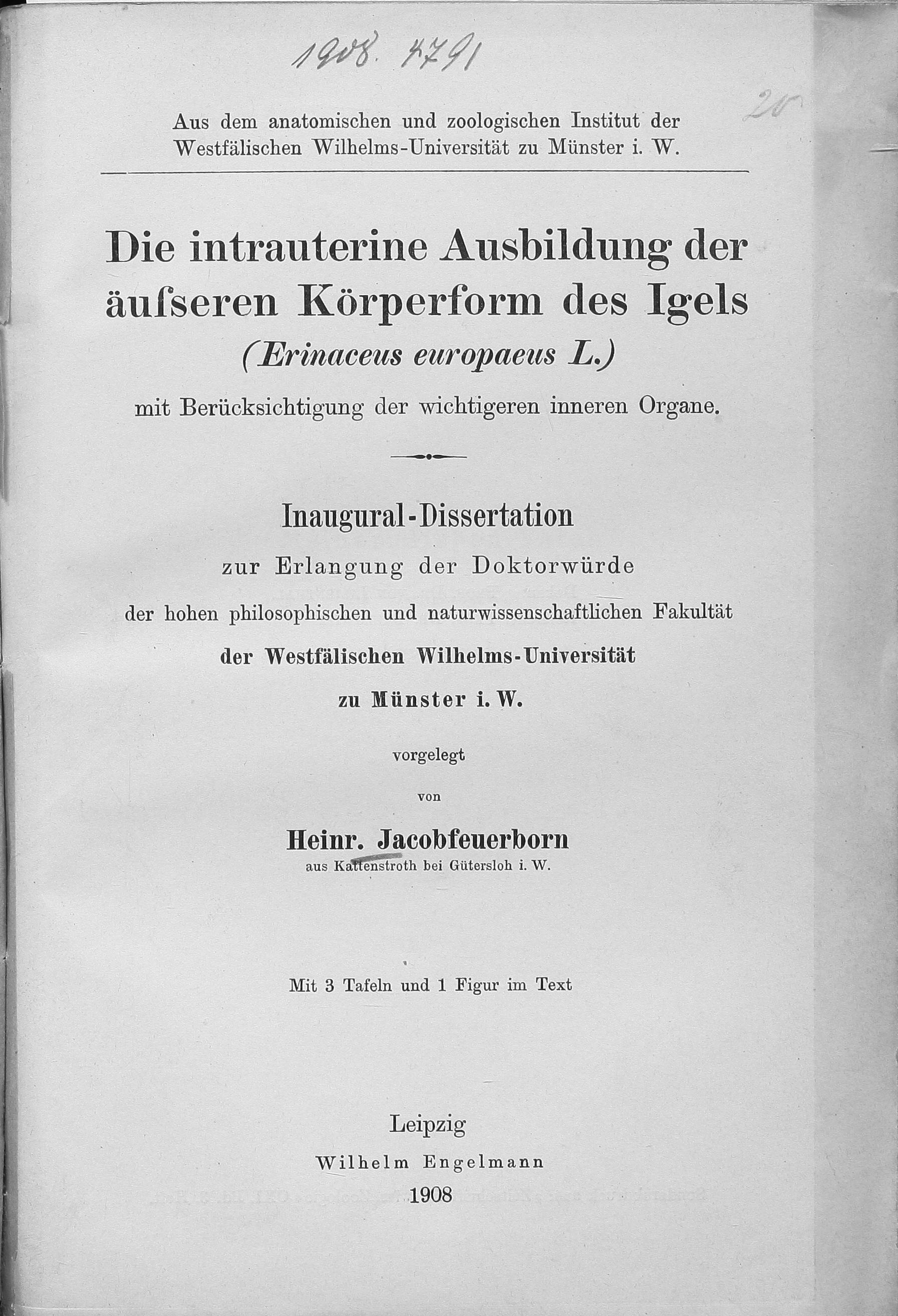 Dissertation H Jacobfeuerborn title page